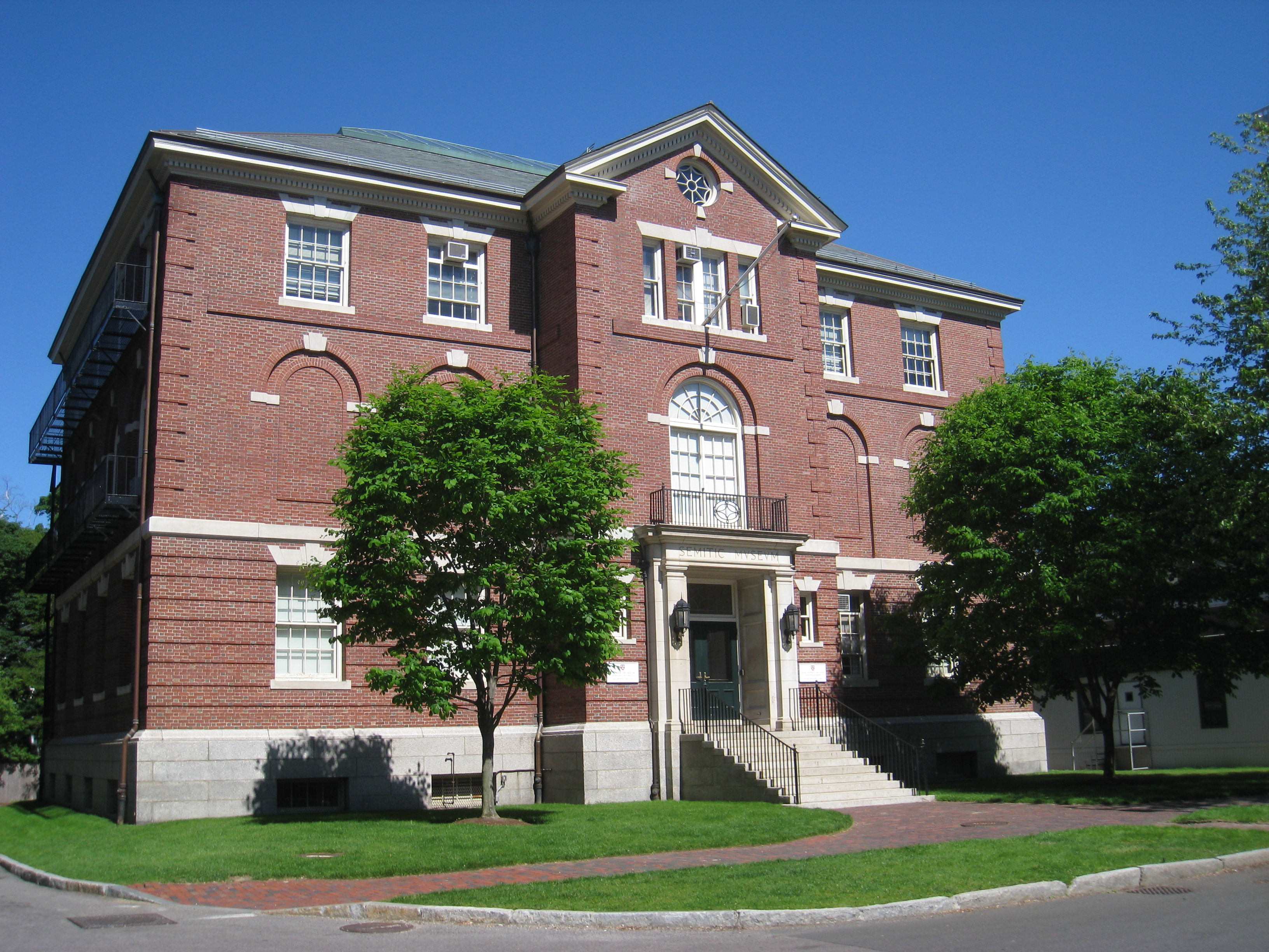 Semitic Museum, Harvard University, Cambridge, Massachusetts, USA.